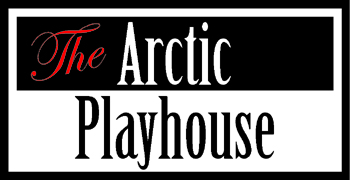 Logo